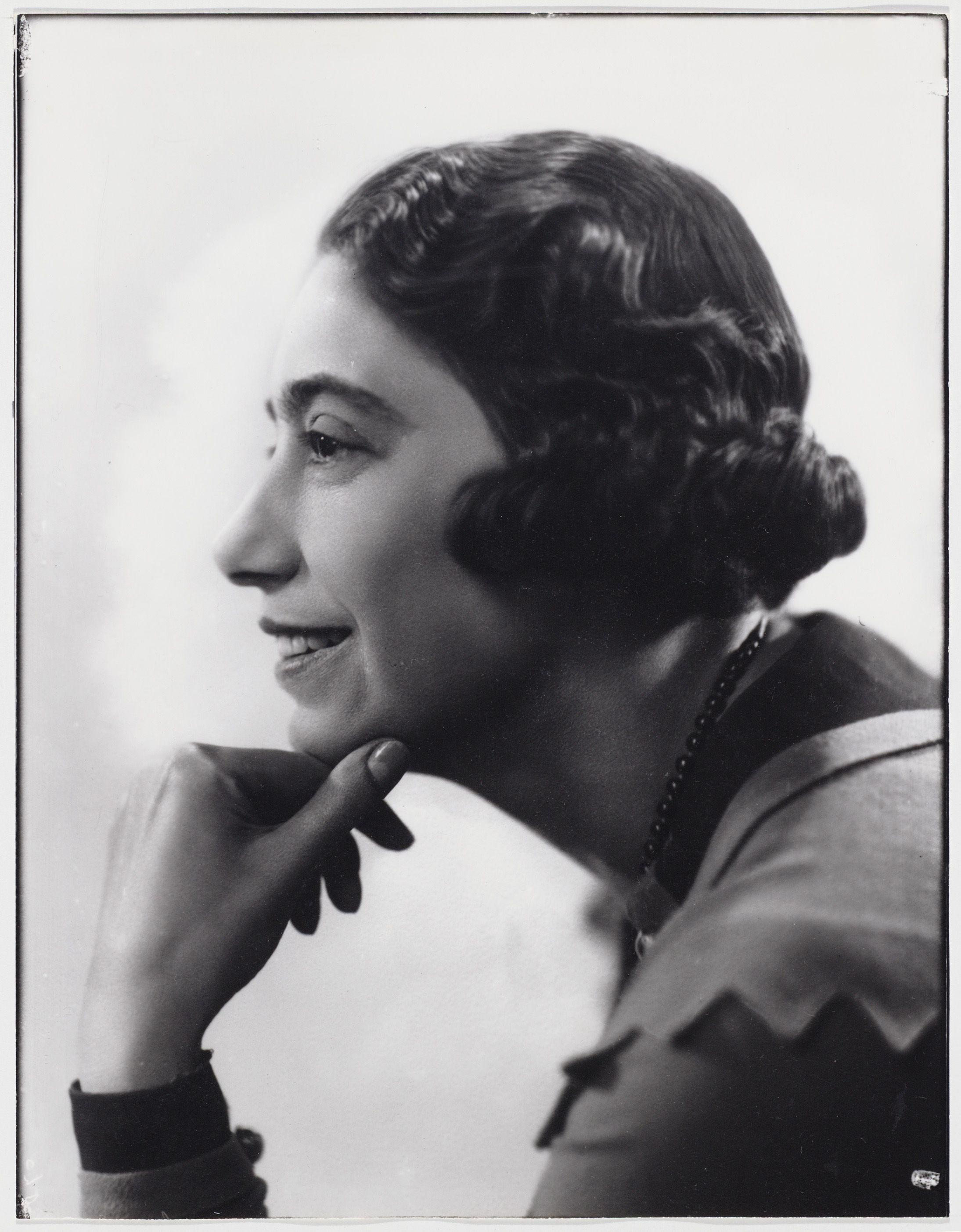 Photograph of Fie Carelsen